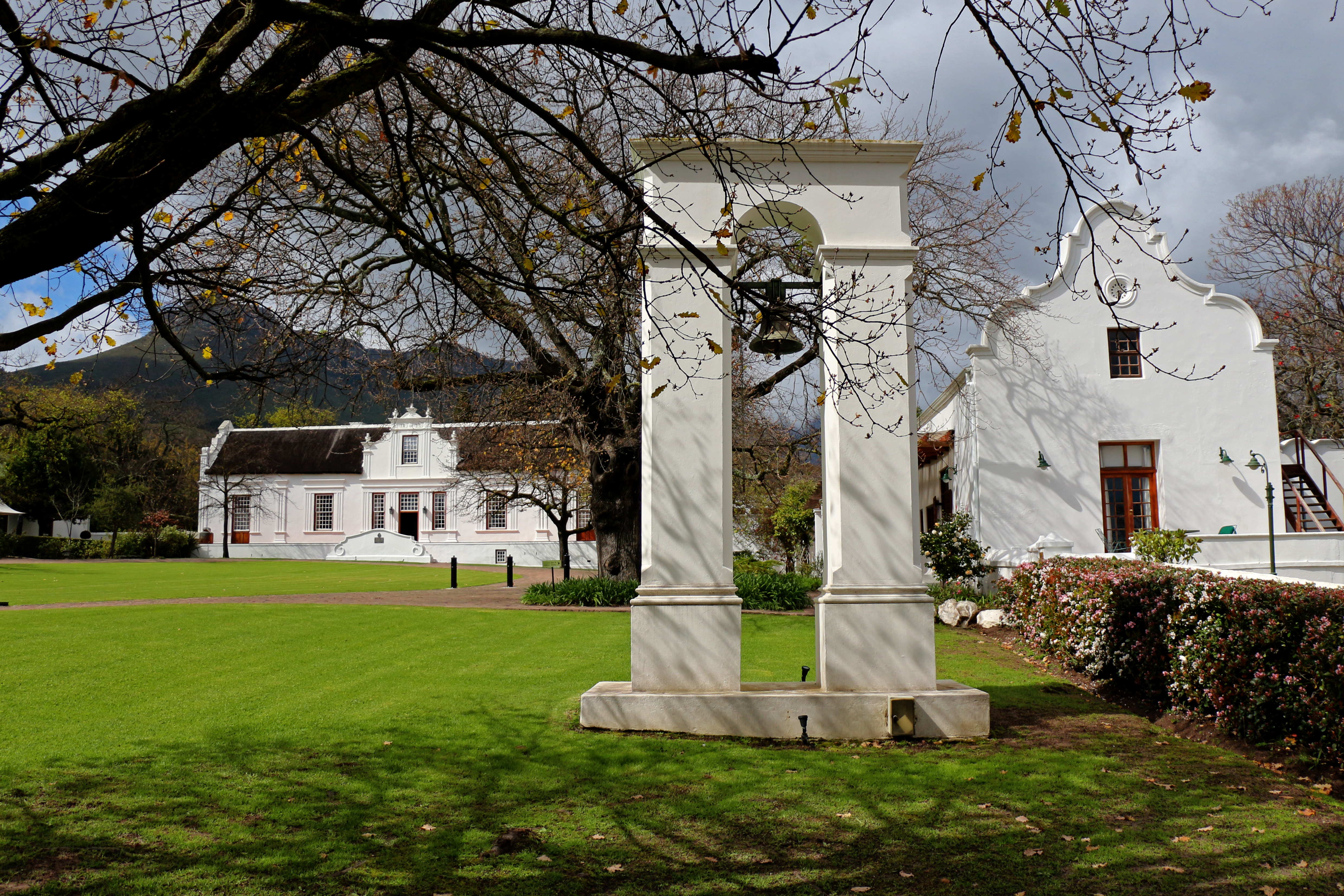 This media shows a South African Protected Site with SAHRA file reference 9/2/084/0023.